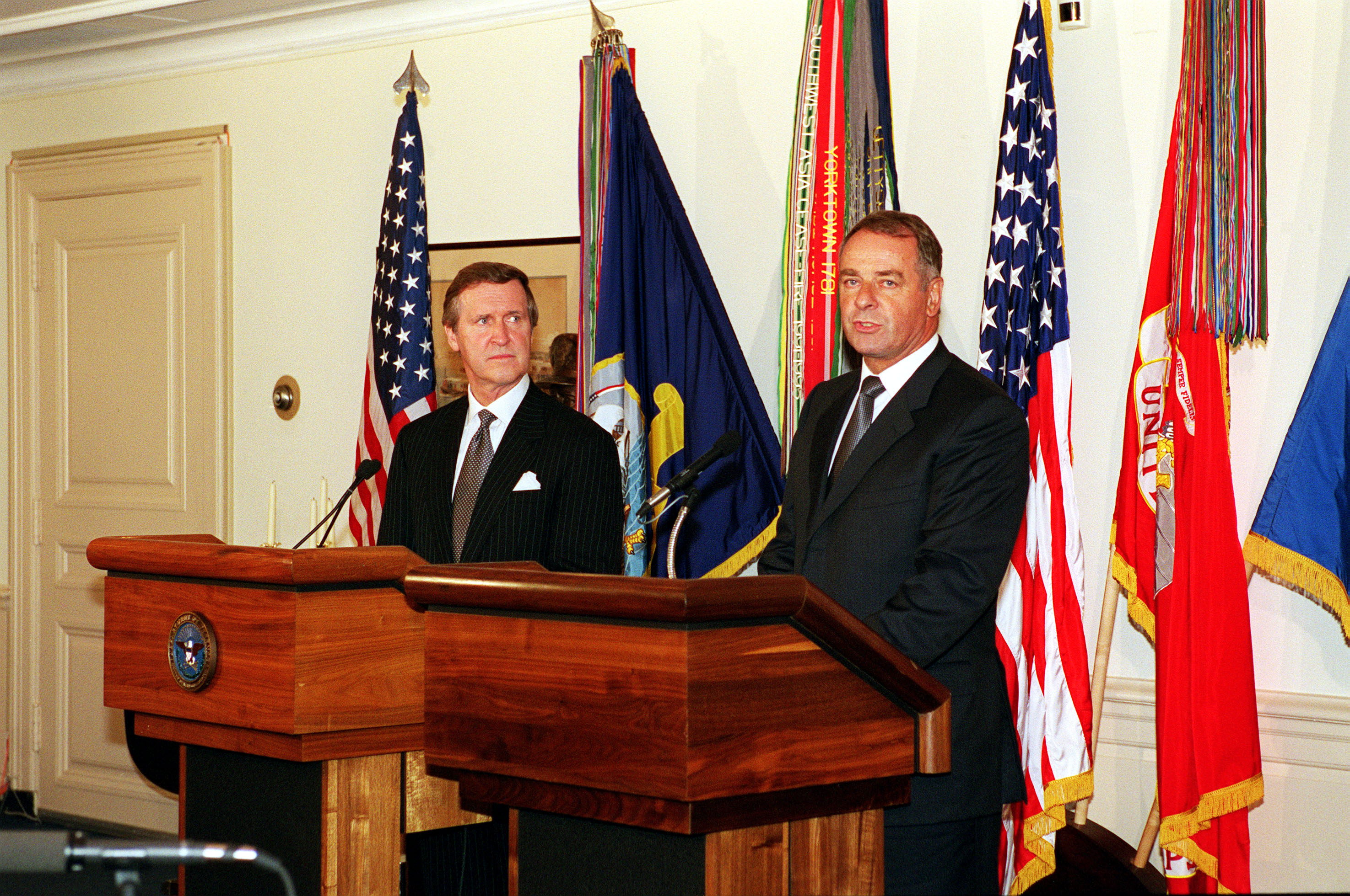 Swiss President and Minister of Defense Adolf Ogi (right) responds to a reporter's question during a joint press conference with Secretary of Defense William S. Cohen at the Pentagon on July 28, 2000. Ogi and Cohen met to discuss security issues of interest to both nations.